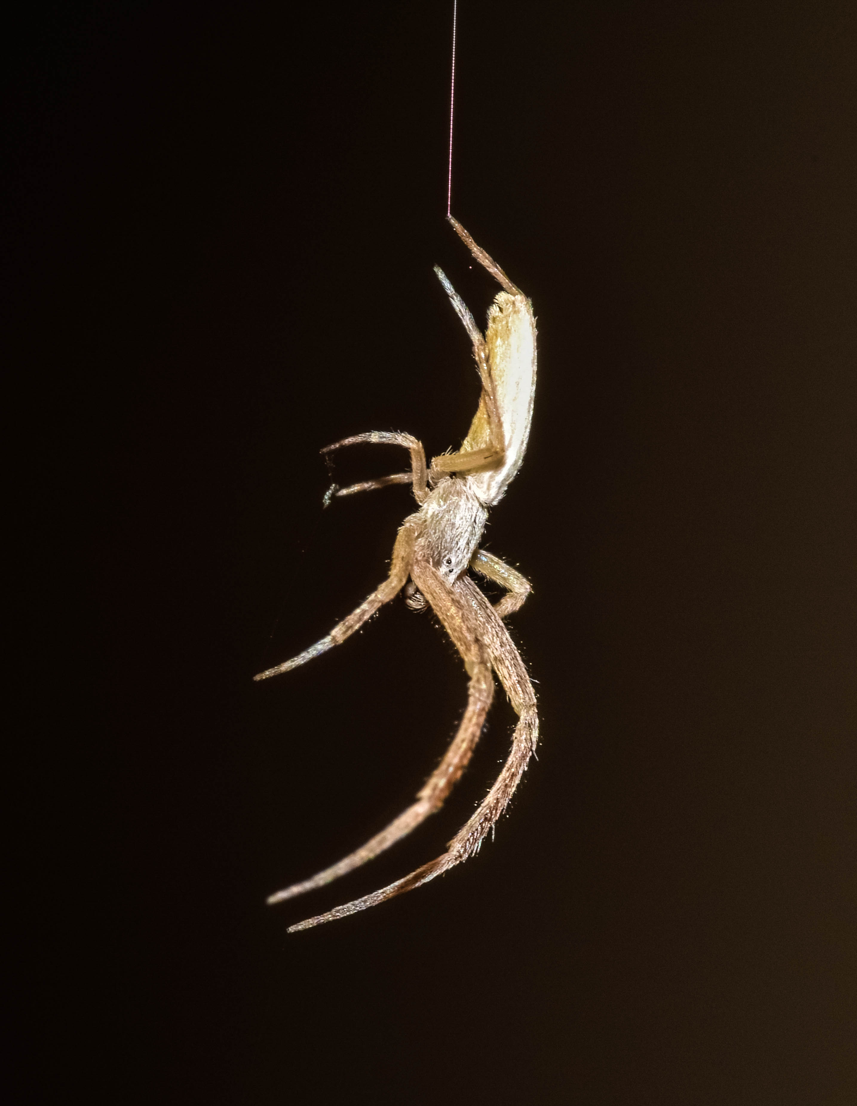 A male feather-legged spider (Uloborus plumipes) hanging from a thread.